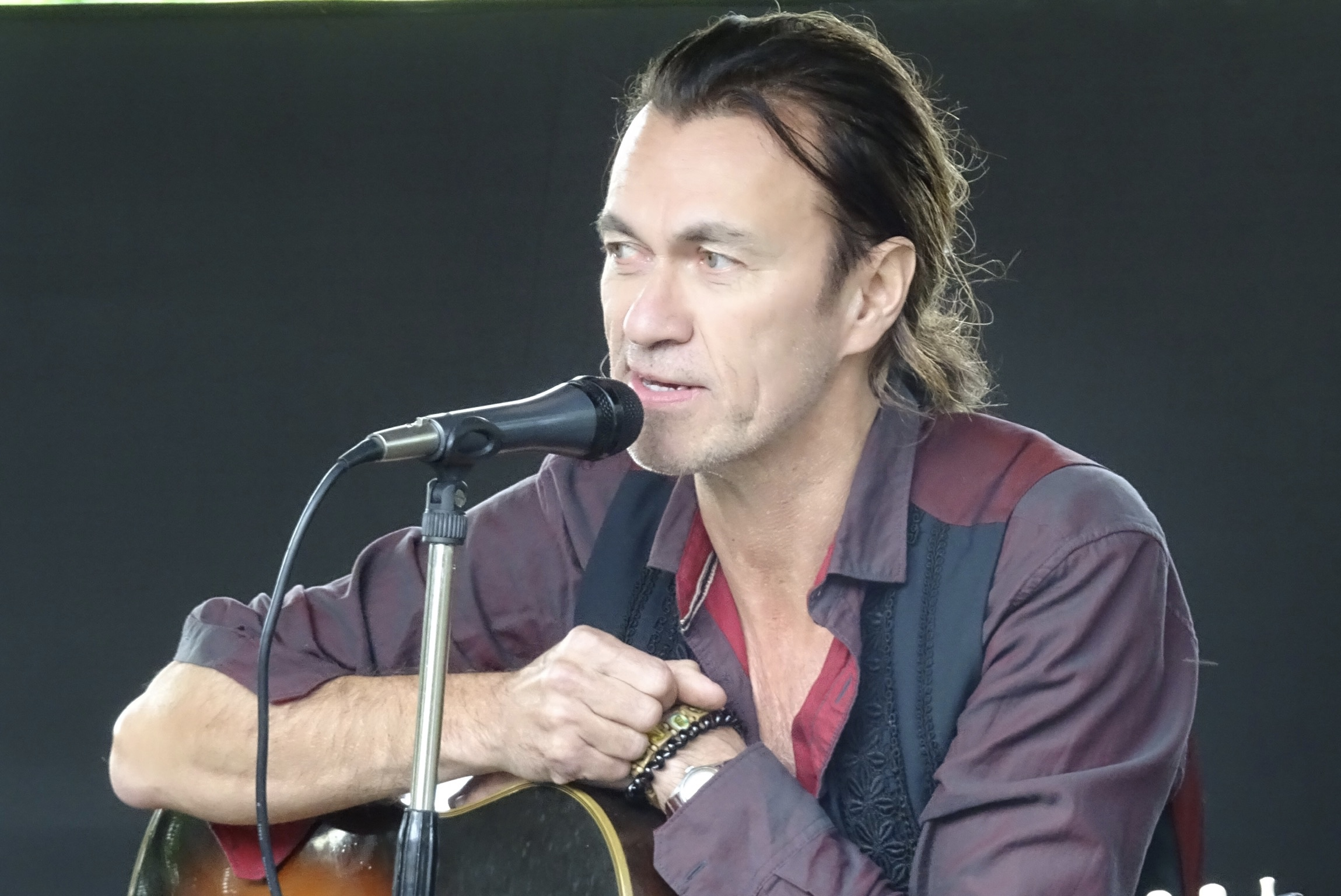 Photo of Erwin van Ligten, made during an outdoor concert in De Bilt on 30 September 2018